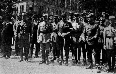 Gen. J. Dowbor-Muśnicki, gen. A. Unrug, gen. J. Wroczyński, gen. I. Wierzejewski, W. Korfanty, A. Poszwiński in Poznań